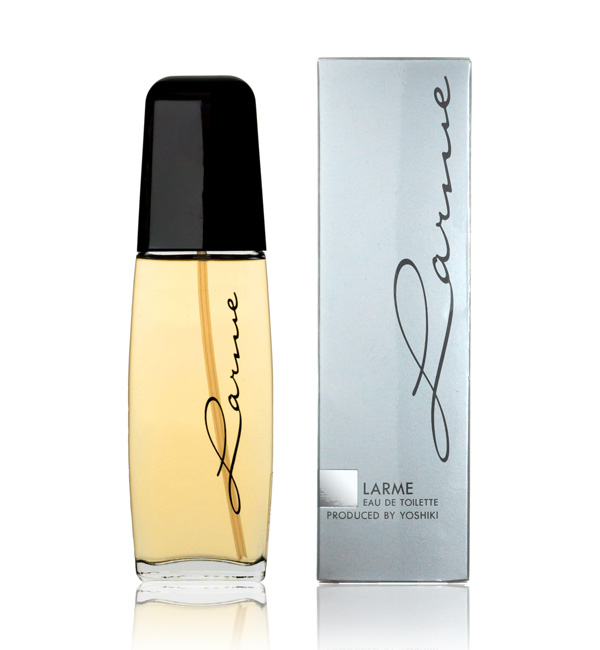 Larme Eau de Toilette. Produced by Yoshiki in 1993.